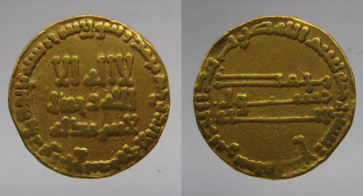 Abbasid Dinar (3.90 g, 17 mm) - Al Mahdi - 167 AH / 783 AD